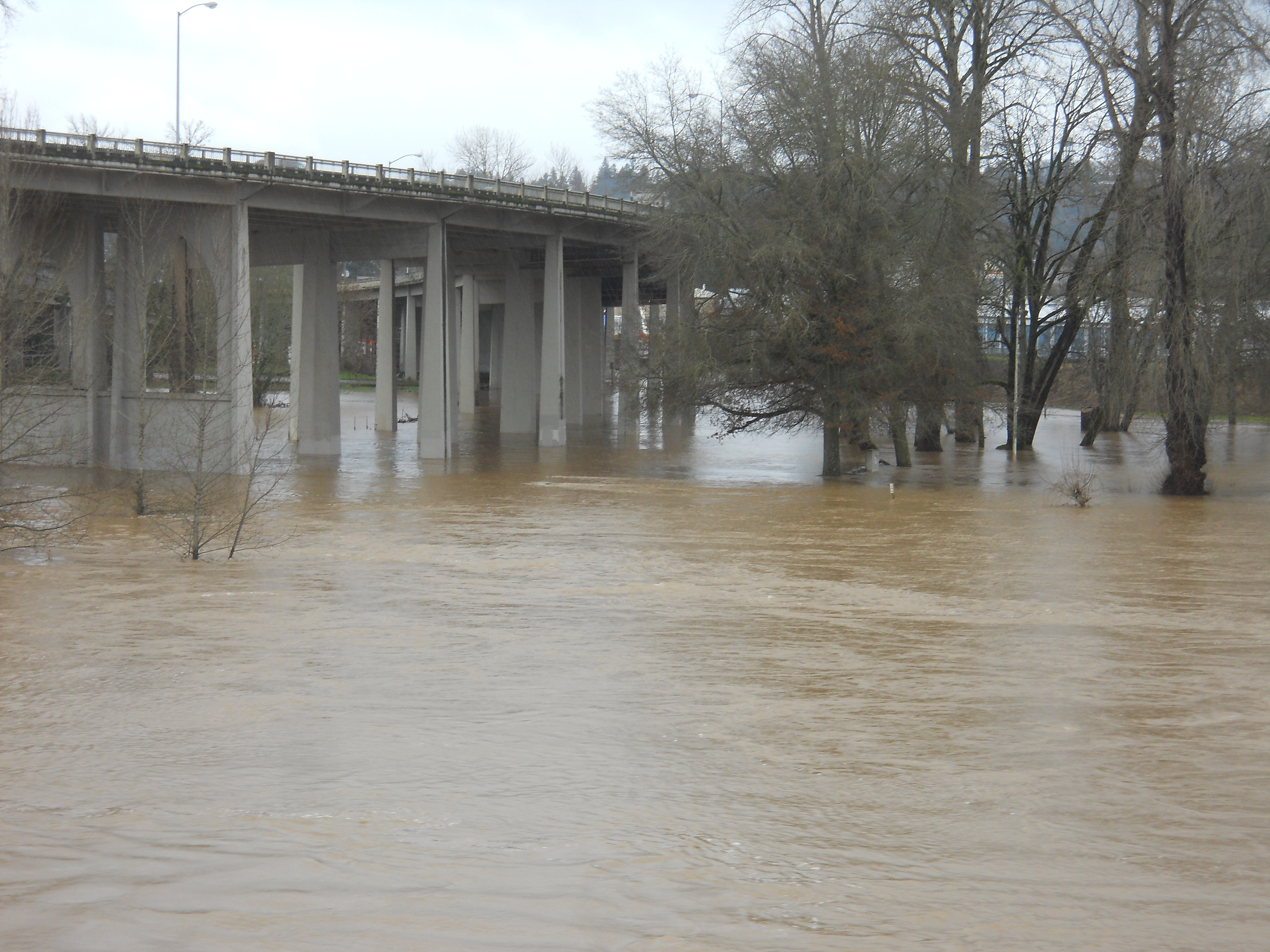 Flood waters from the Willamette River flow under the Wallace Road offramp from OR 22. The bridges and ramps are undamaged and open.